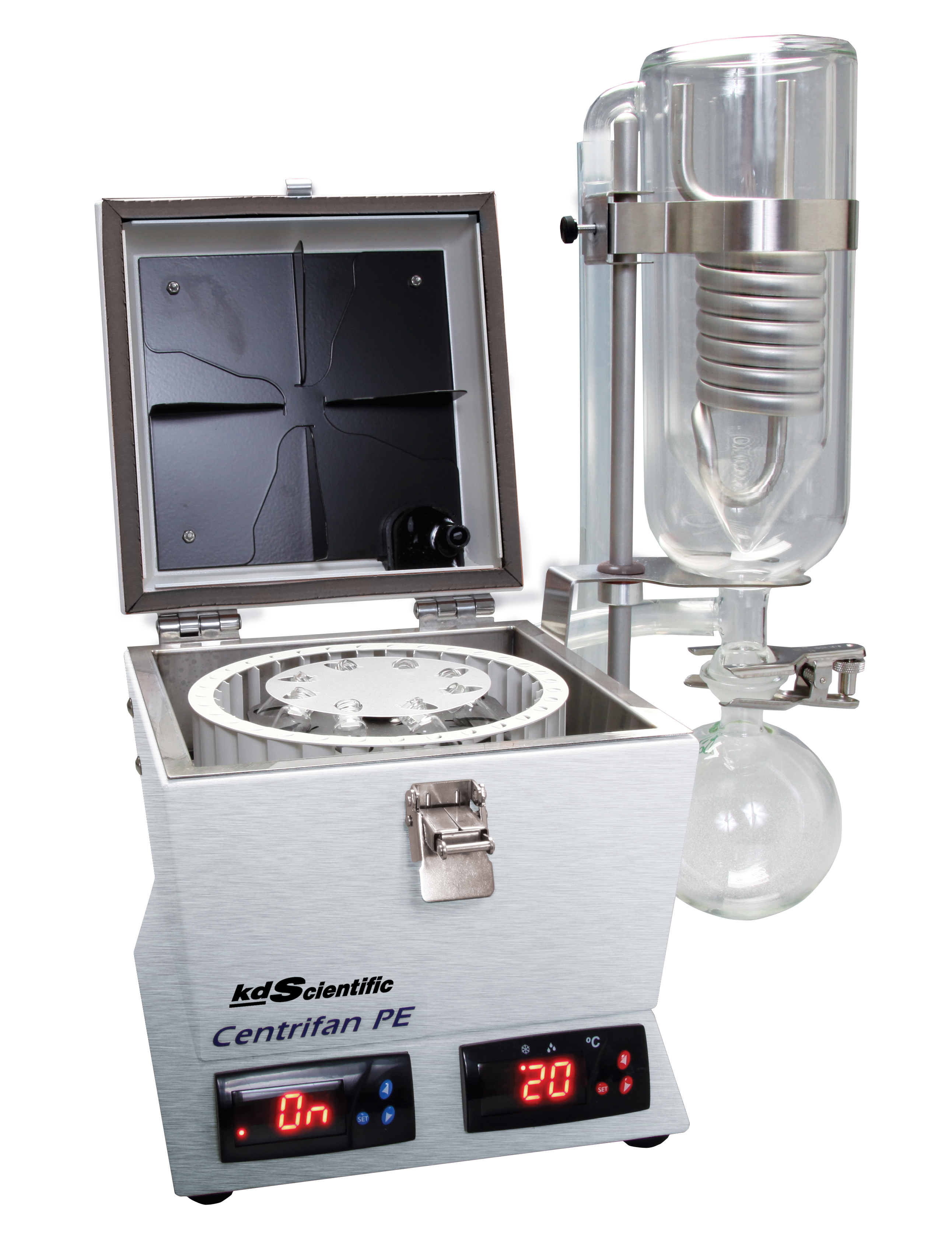 Evaporator with SBT to eliminate bumping. Manufactured by KD Scientific, Holliston, MA.